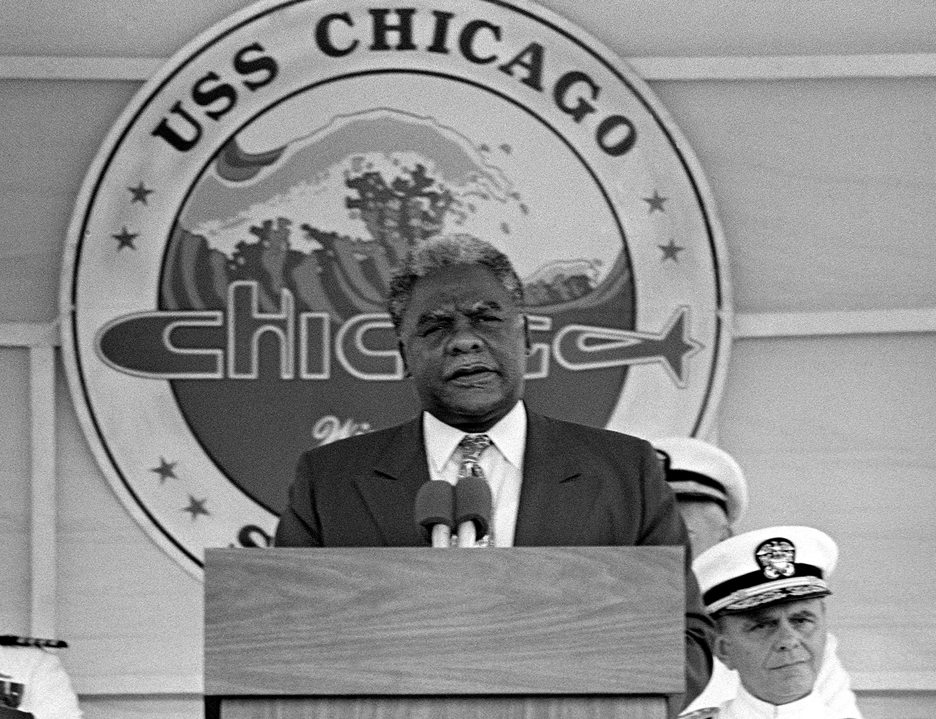 Chicago Mayor Harold Washington speaks during the commissioning of the nuclear-powered attack submarine USS CHICAGO (SSN 721), September 27, 1986. Location: NAVAL STATION, NORFOLK, VIRGINIA (VA) UNITED STATES OF AMERICA (USA) (Captioning information is duplicated in source IPTC)